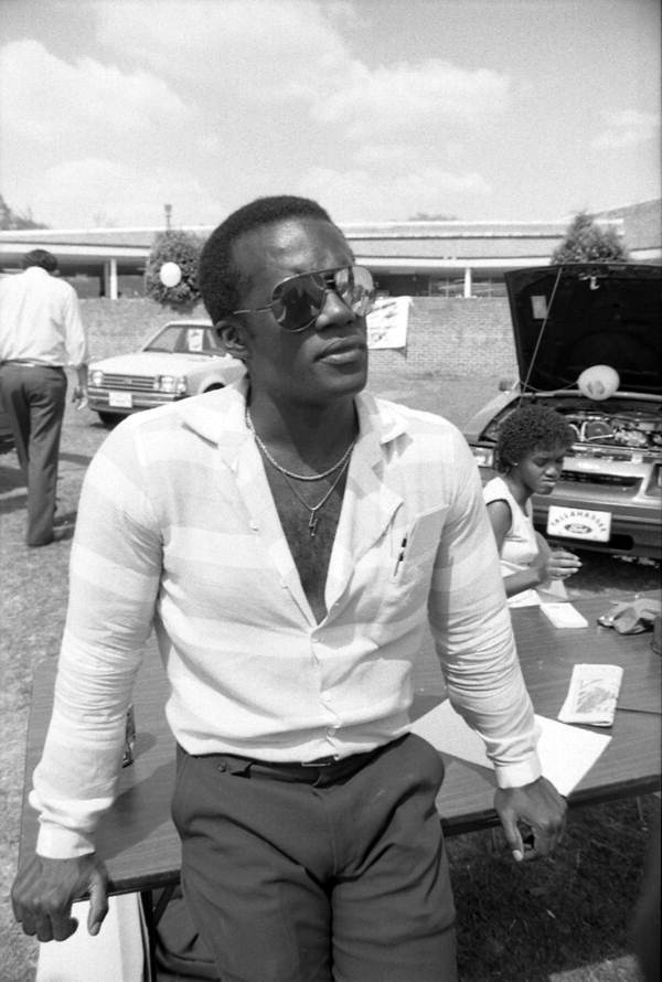 Ron Galimore, Gymnast at FSU - Tallahassee, Florida.